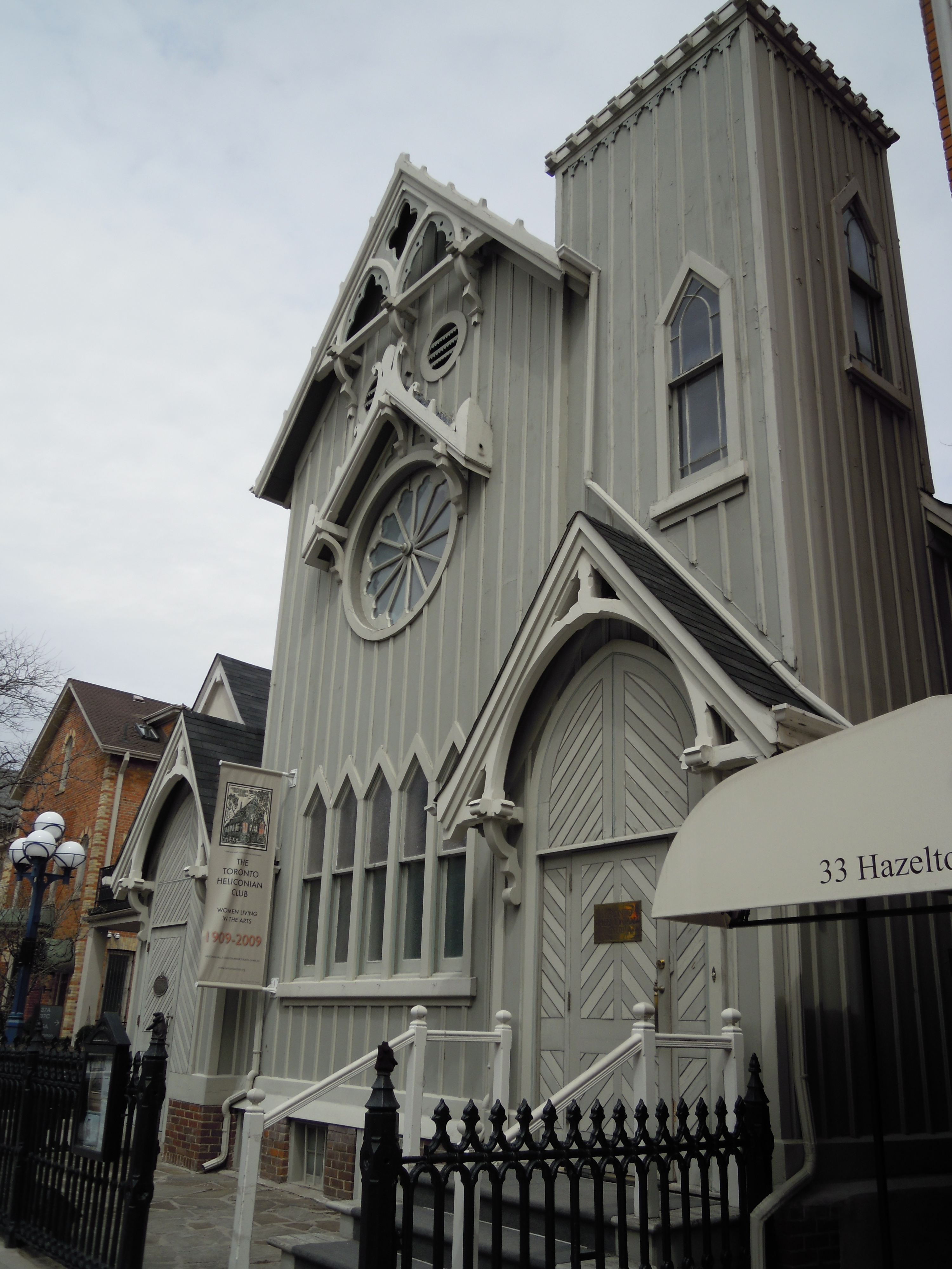 Heliconian Hall, 35 Hazelton Avenue, Toronto, Ontario, Canada.